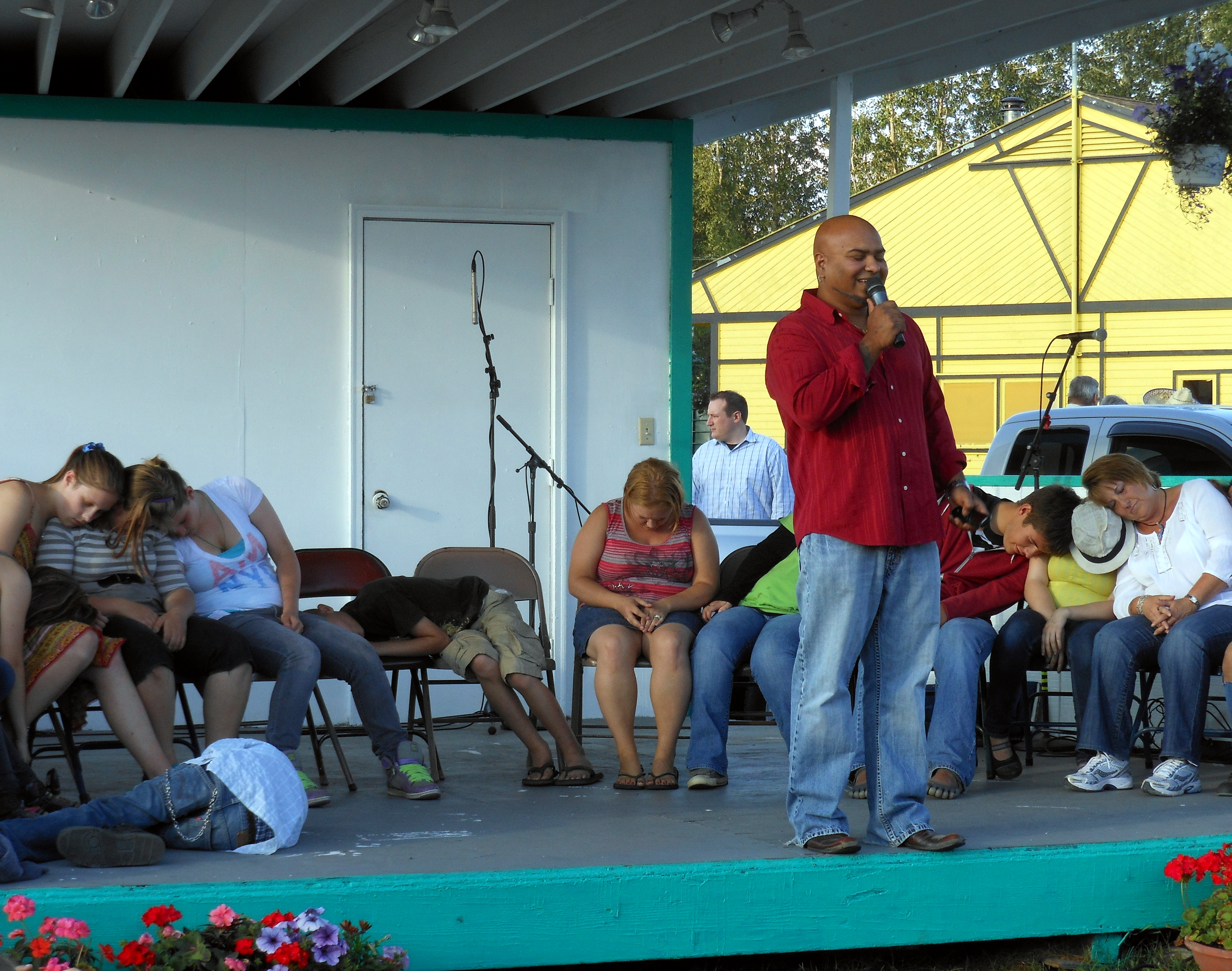 Sailesh is a Fijian-born Canadian hypnotist currently based in San Francisco. He is shown performing at the 2012 Tanana Valley State Fair, surrounded by the onstage participants all unconcious and slumped over in their chairs. The heavyset woman slumped over to Sailesh's left in the photo, wearing a red and white striped shirt and blue jean shorts, was also a key "audience member" in his "uncensored" show in the beer garden, which led me to wonder if and how she's part of the act.